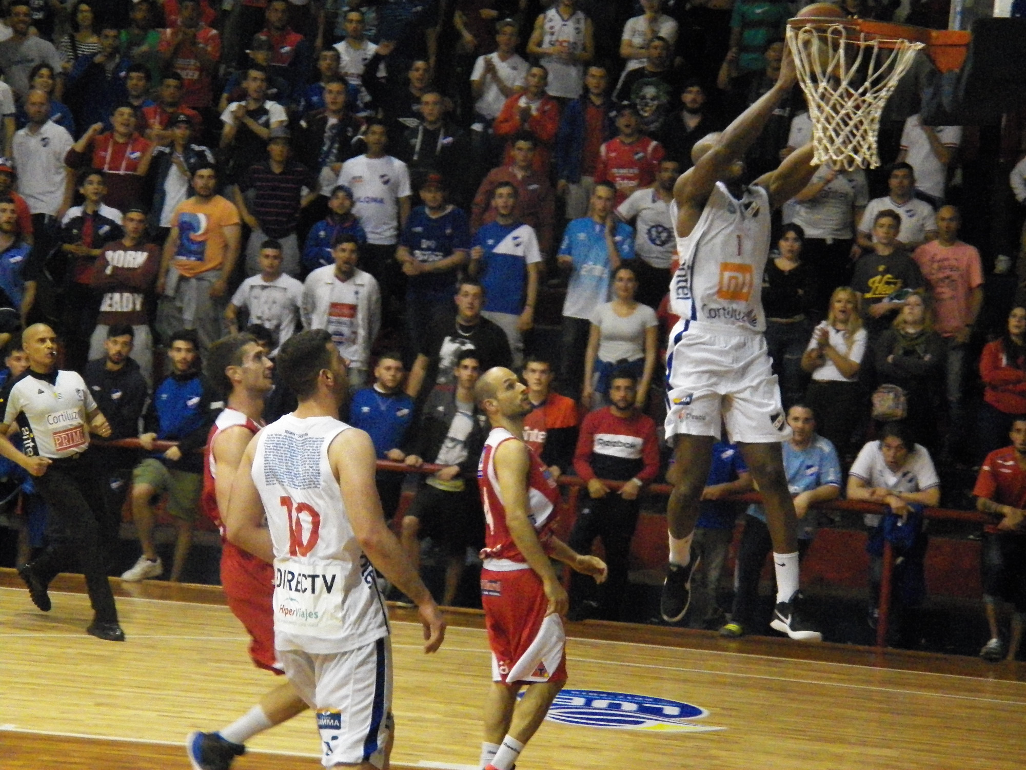 Formidable victory of Nacional against Trouville